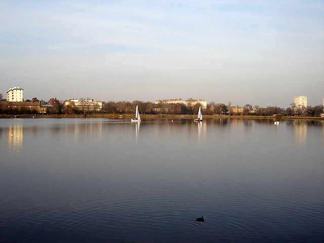 West Reservoir, Stoke Newington, Hackney, London. 24 January 2006. Photographer: Fin Fahey.